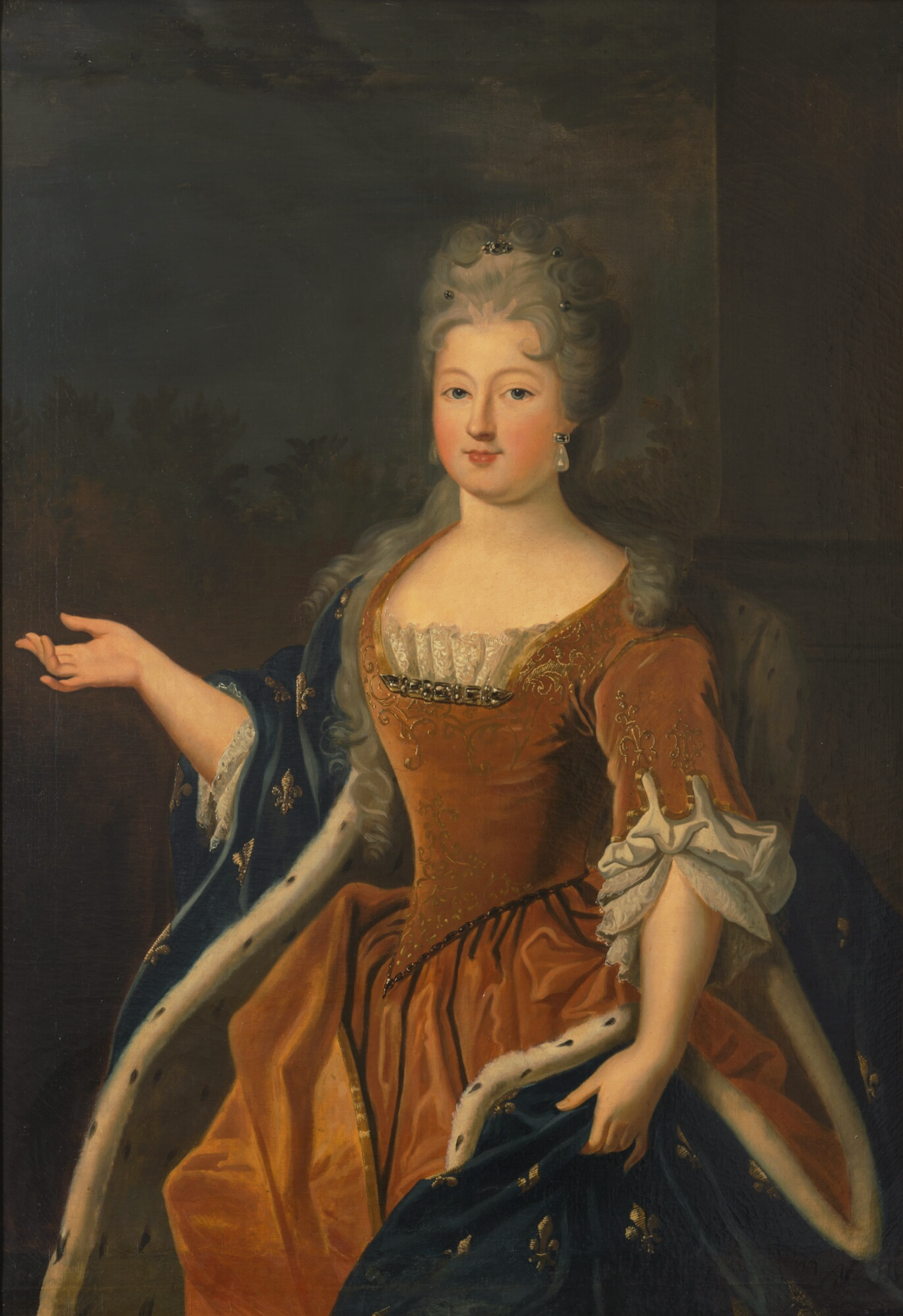 Portrait of Marie Louise Élisabeth d'Orléans (1695-1719), Duchess of Berry